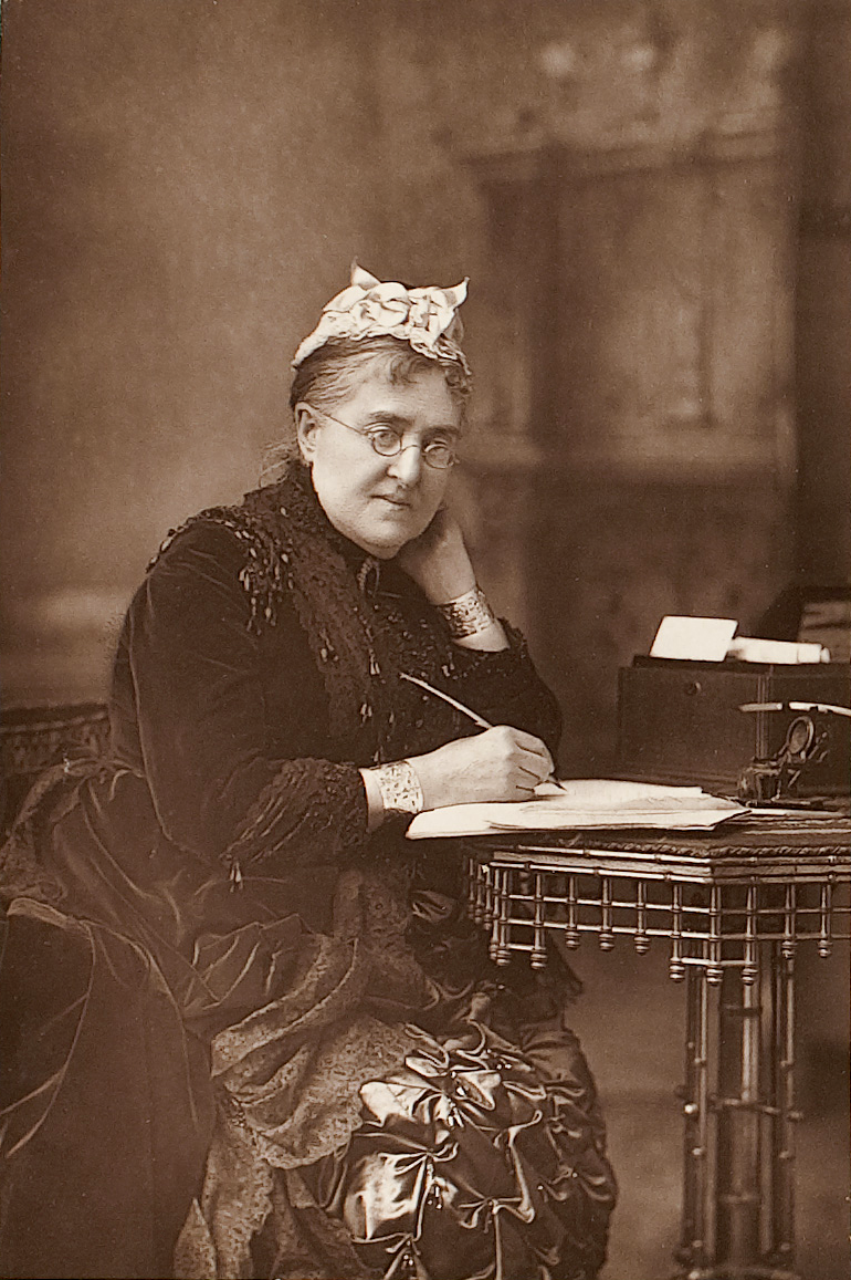 Woodburytype of Eliza Lynn Linton